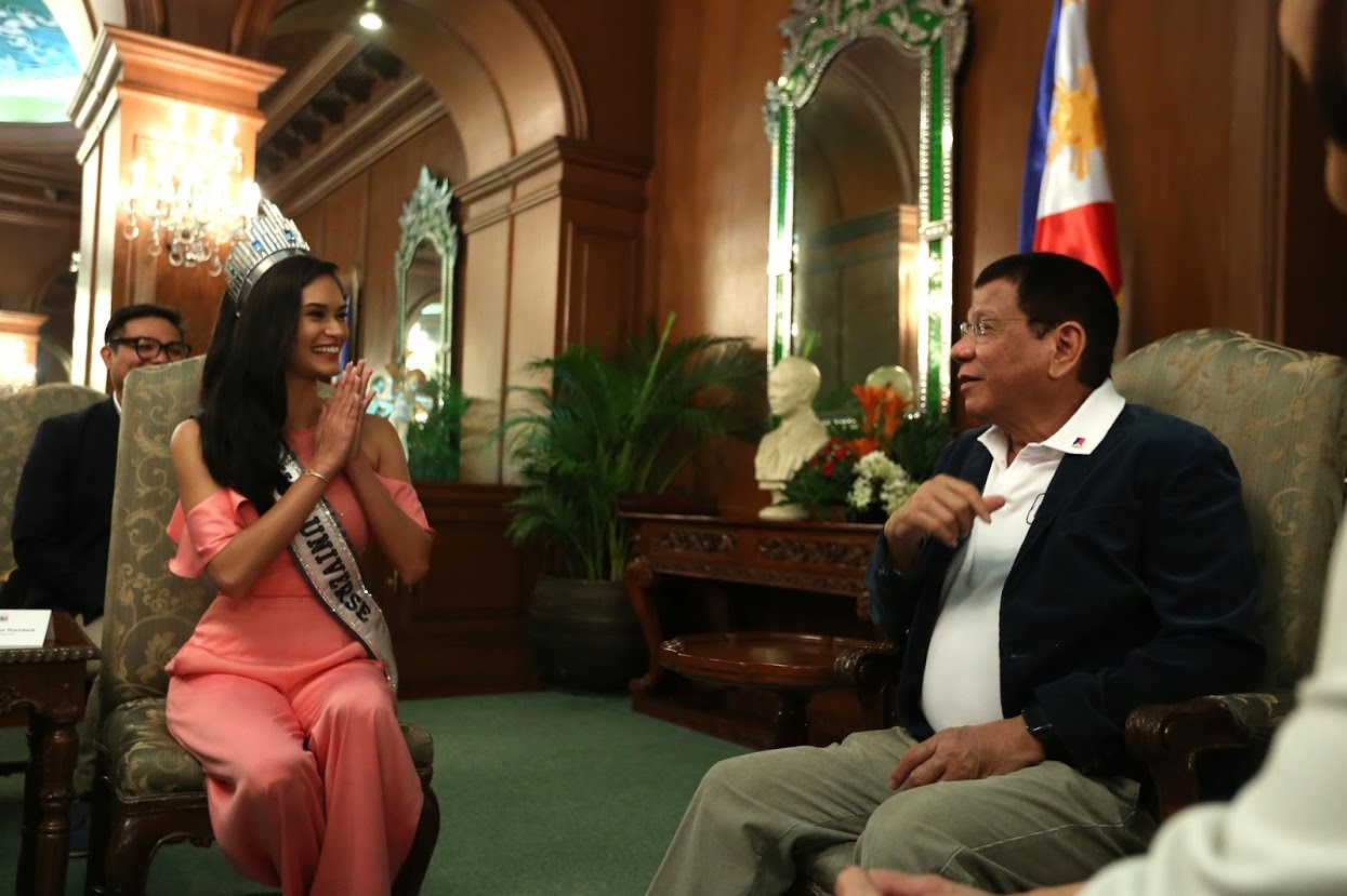 President Rodrigo R. Duterte meets with Miss Universe 2015 Pia Wurtzbach during a courtesy call at the Music Room in Malacañan Palace on July 18.